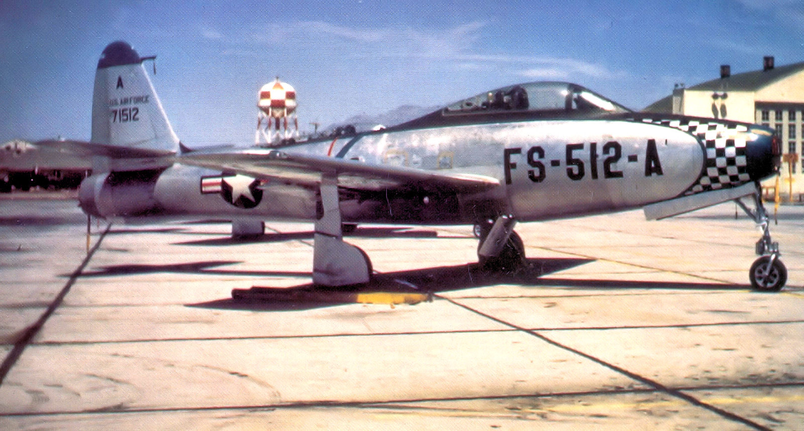 31st Fighter Wing - F-84C 47-1512 Turner AFB, GA 1949